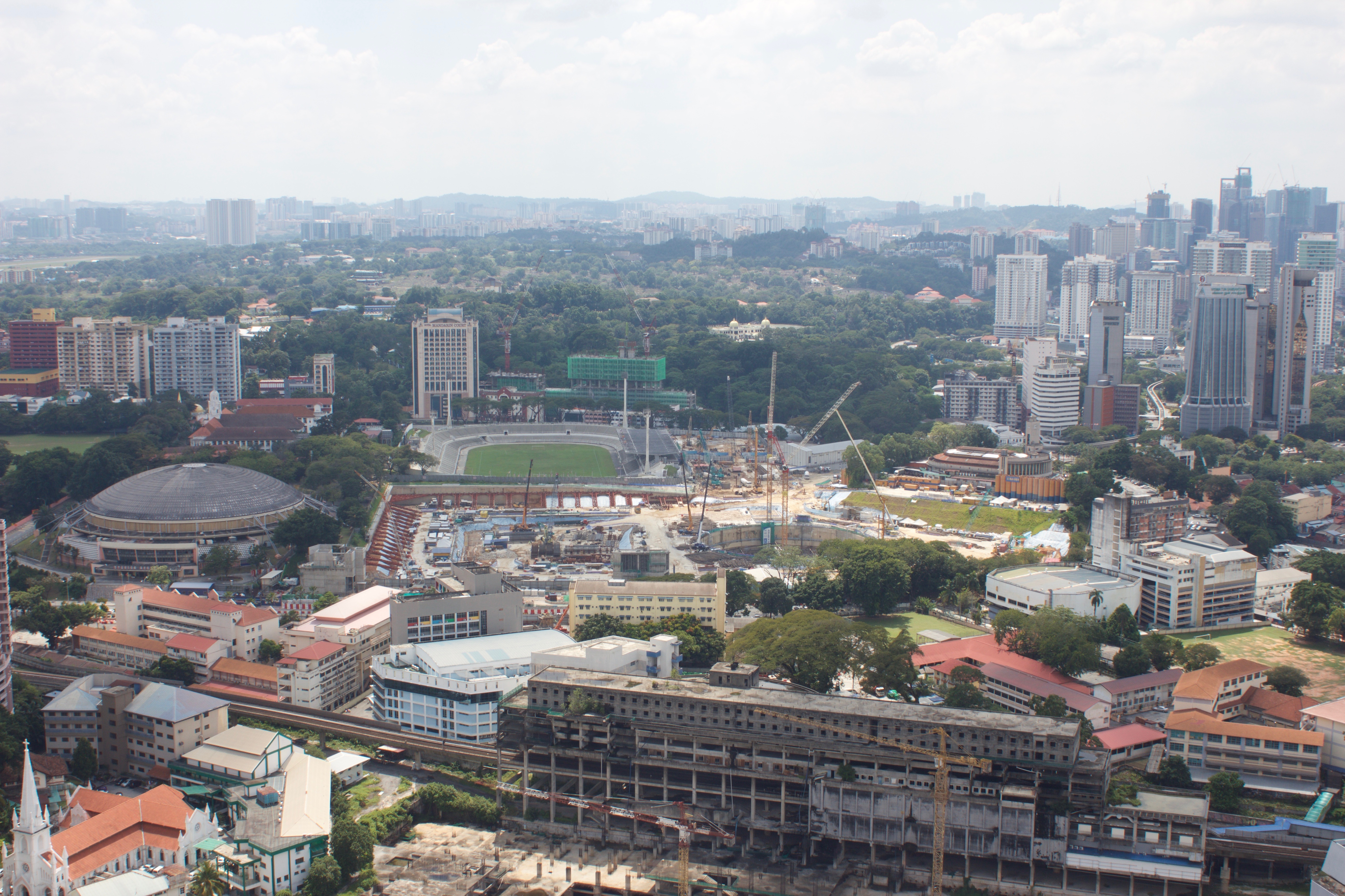 KL118 (Merdeka PNB 118) construction site on 13 November 2016 viewed from the north (facing south).